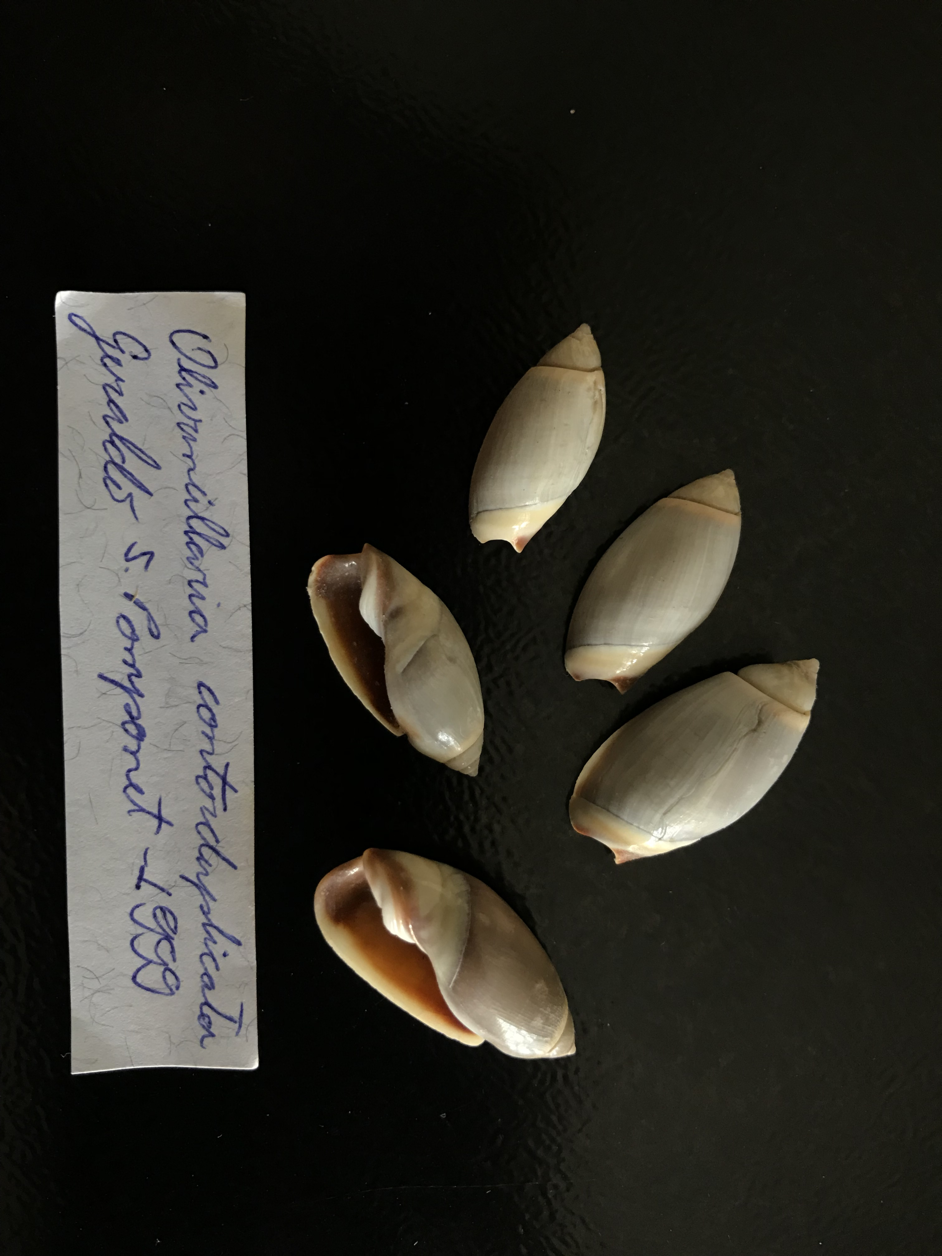 Specimens of Olivancillaria contorduplicata from Fabio Wiggers collection